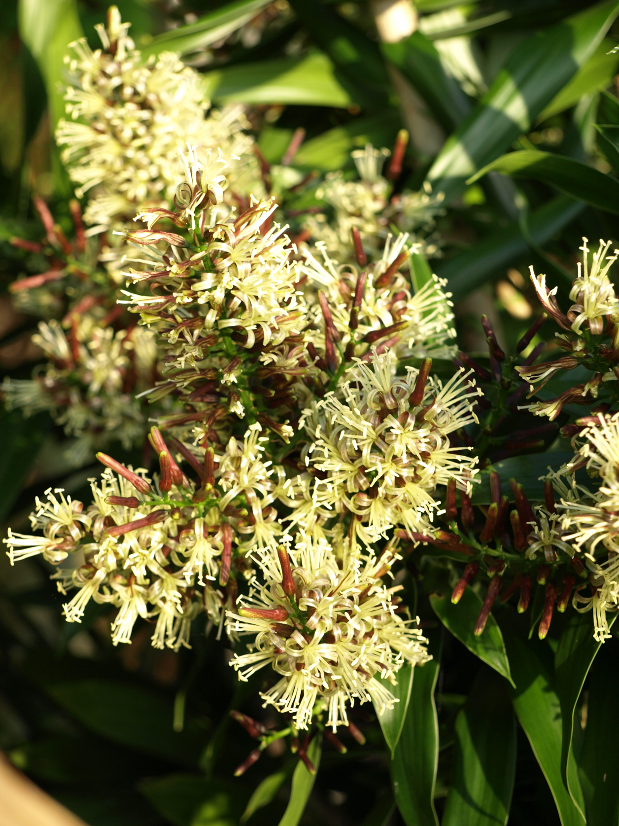 South Miami, Florida, USA.